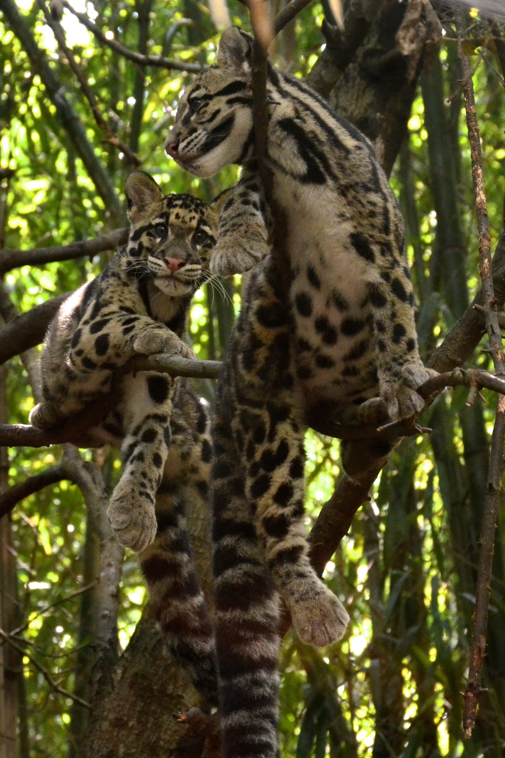 Photobomb Level: Clouded Leopard!